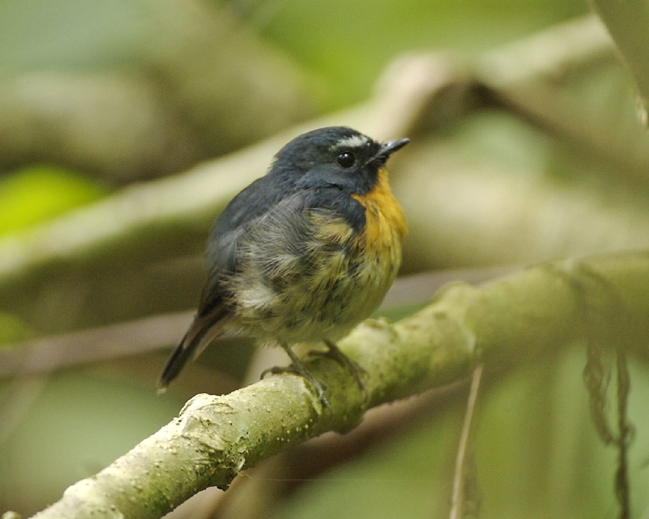 Snowy-browed Flycatcher (Ficedula hyperythra) at Mount Gede, West Java. 11 August 2007